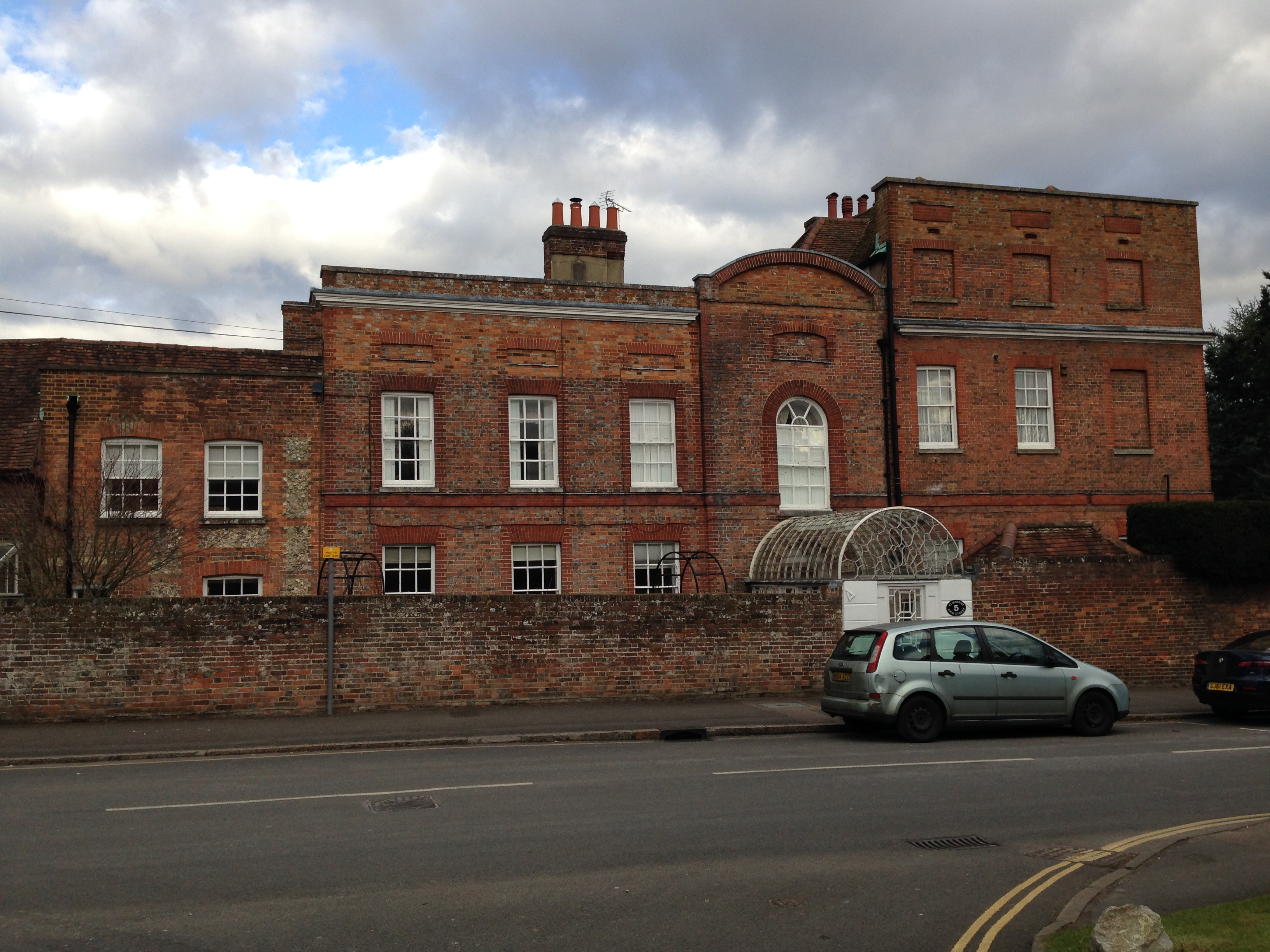 The Grade II* listed Elmhurst apartment building in Great Missenden, Buckinghamshire, England.